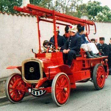 Old fire engine of Nieul-sur-Mer (Charente-Maritime, France); centenary of the Sainte-Soulle Fire Brigade (Charente-Maritime, France)